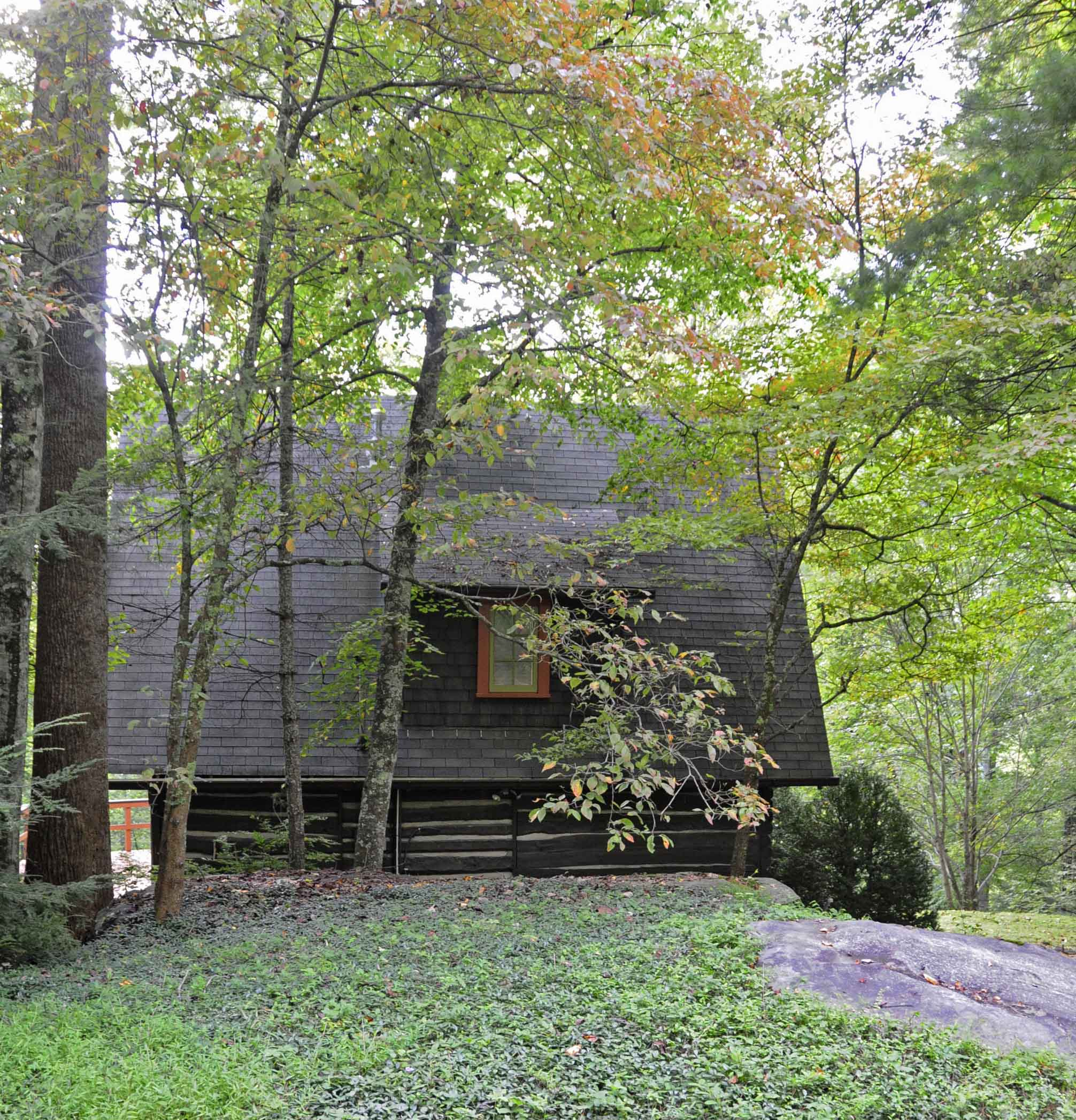 William Nelson Camp, Jr., House